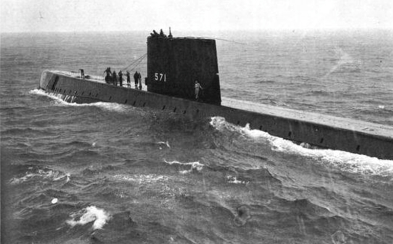 The U.S. Navy submarine USS Nautilus (SSN-571) underway at sea, in 1958.